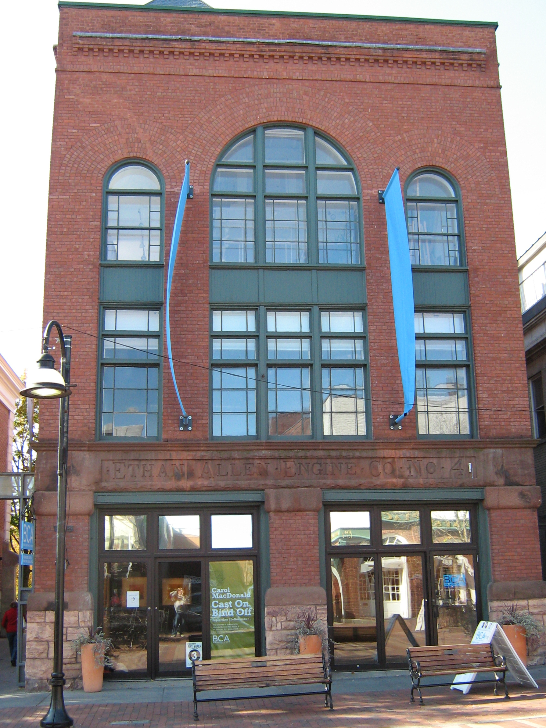 Ethan Allen Engine Company No. 4, Church Street (next to City Hall), Burlington, Vermont. Rescued from demolition in 1969, this classic Romanesque 1887 firehouse is now the Firehouse Center for Visual Arts, part of the non-profit Burlington City Arts. FCVA includes a community darkroom and photography studio; artist-in-residence studio; multimedia conference facility for lectures, film series, and panel discussions; and Resource Room and Library with public meeting space and Internet access. It is listed individually on the National Register of Historic Places, and also as a contributing building in the City Hall Park Historic District.